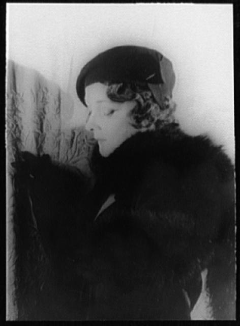 Title: Portrait of Marie Doro Abstract: 1 photographic print : gelatin silver.